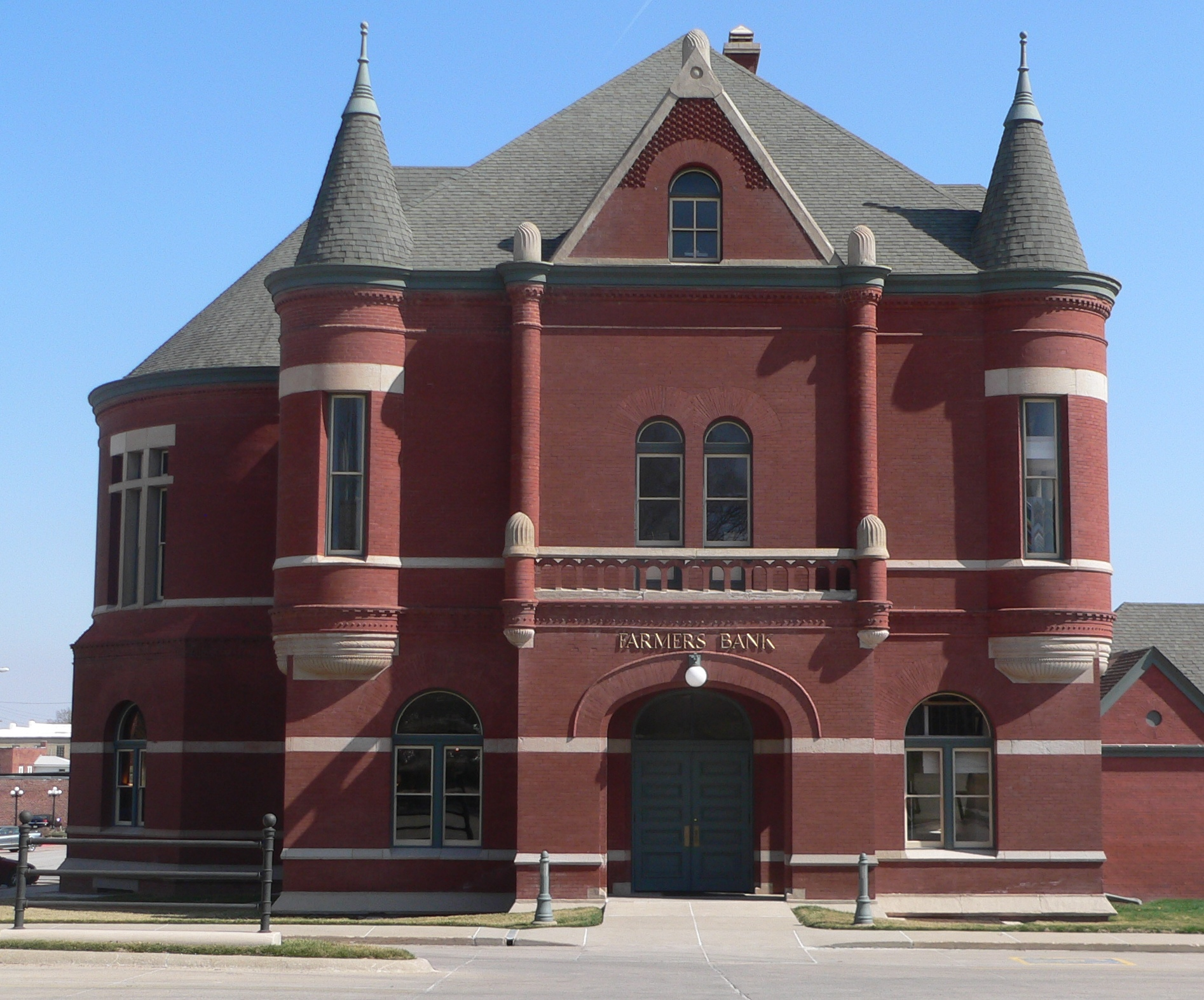 Farmers Bank and Trust building, former post office, located at 202 S. 8th Street in Nebraska City, Nebraska; seen from the west. The building faces eastward toward 8th Street.